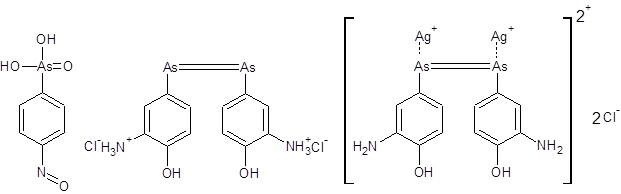 ACD Labs